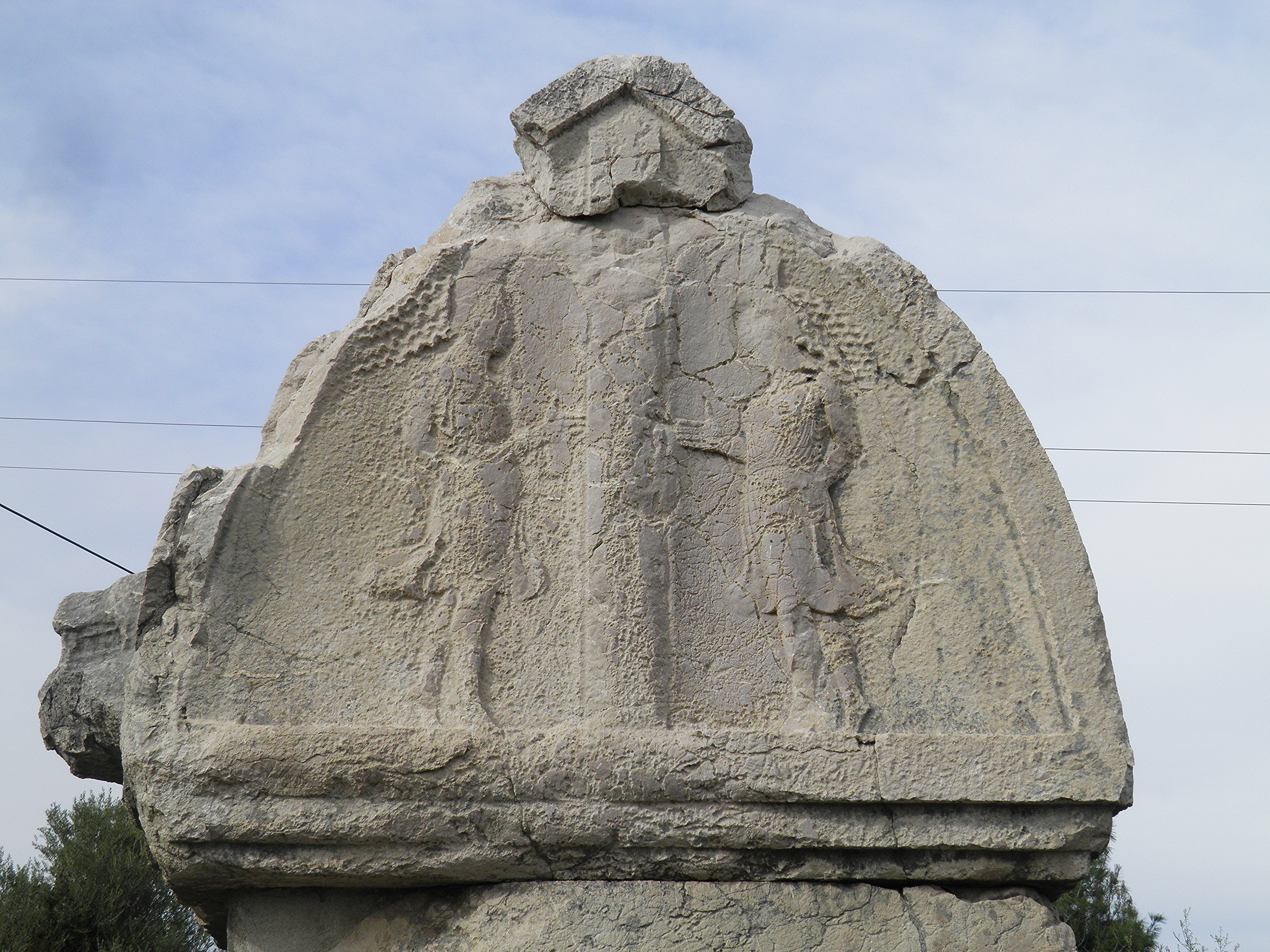 Short face of the Dancers' sarcophagus' lid decorated with two dancers, dating from the 4th century BC, Xanthos, Lycia, Turkey